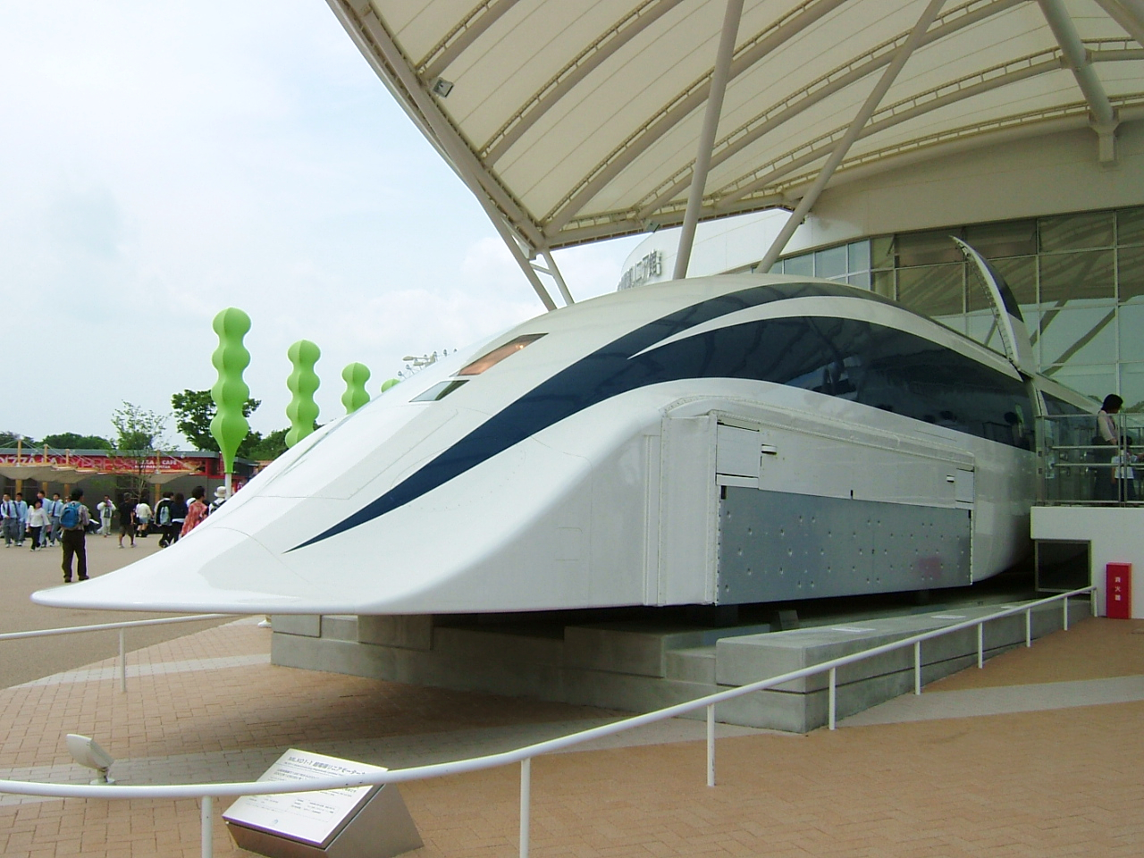 The experiment linear motor vehicle MLX01-01 of the Central Japan Railway Company